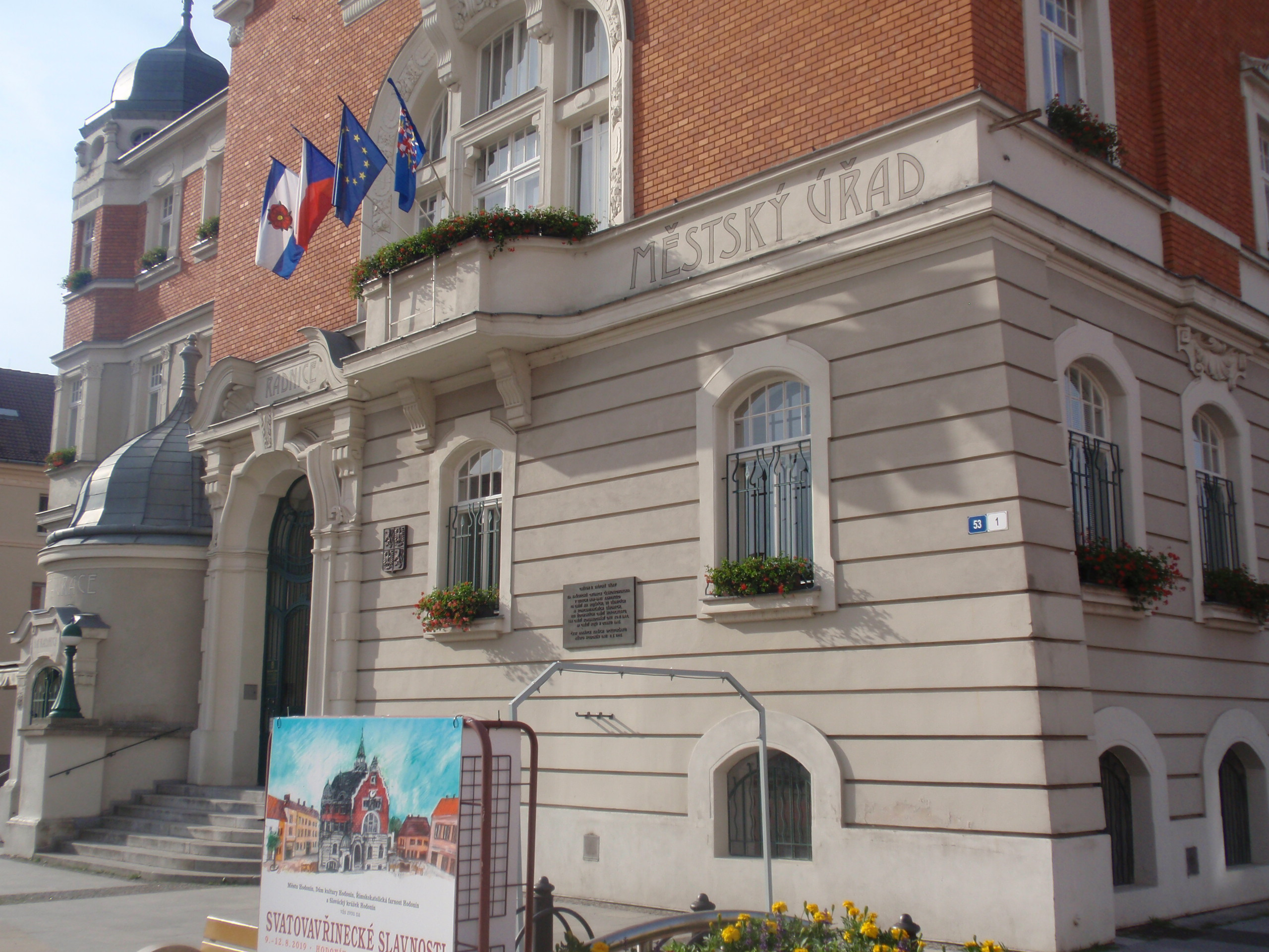 The flag of Moravia town hall in Hodonín